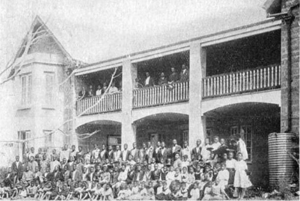 1917 Girls building at Ohlange Ohlange High School from First President: A Life of John Dube, Founding President of the ANC By Heather Hughes